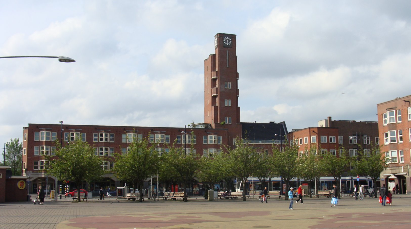 The Mercatorplein ("Mercator Square") in Amsterdam, The Netherlands. The buildings on this photograph have been designed by Dutch architect Hendrik Petrus Berlage (1856 - 1934) between 1924 and 1927